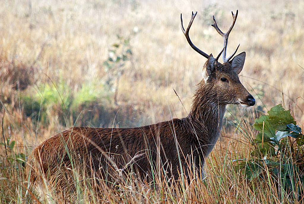 Barasingha